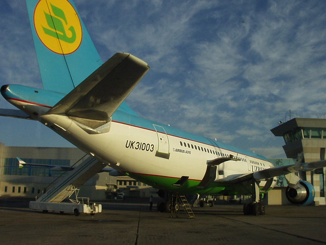 Uzbekistan Airways A310-324 in Tashkent Yuzhny Airport, Uzbekistan